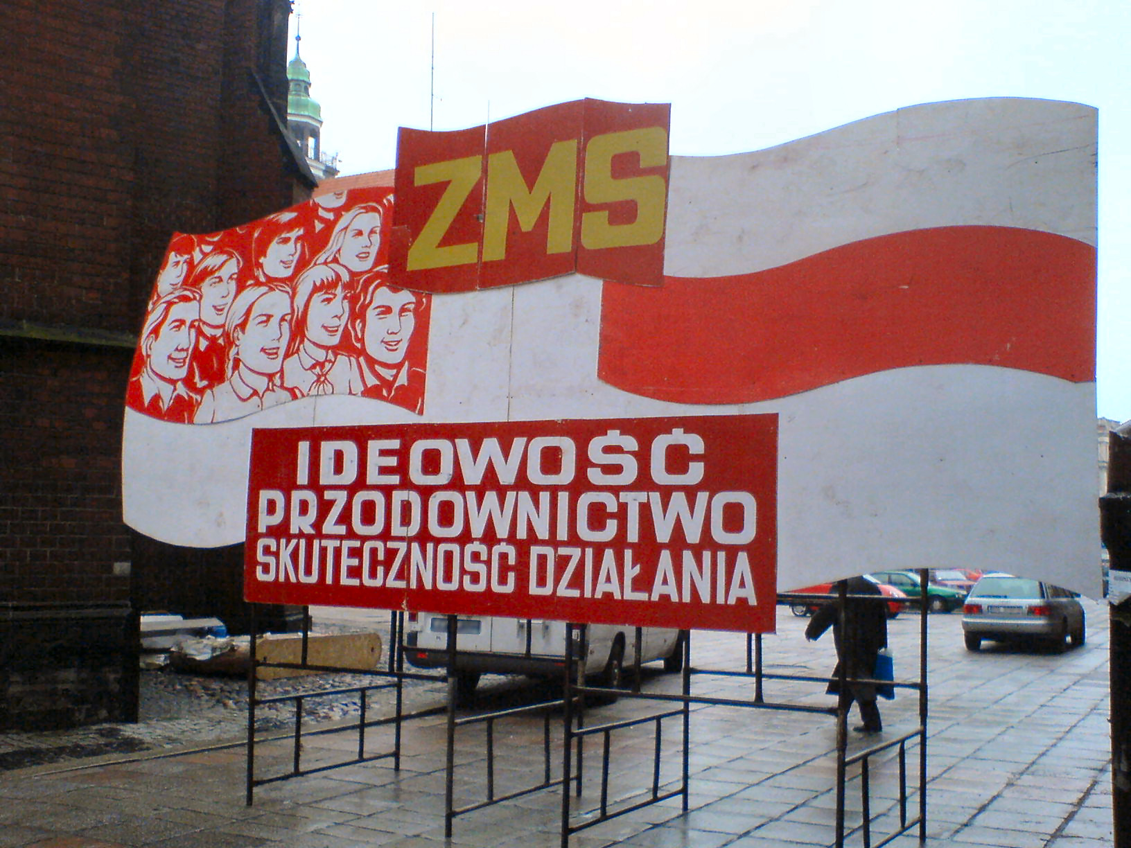 Set of movie "Mała Moskwa" (Legnica), on the left there are part of Cathedral St. St. Peter and Paul